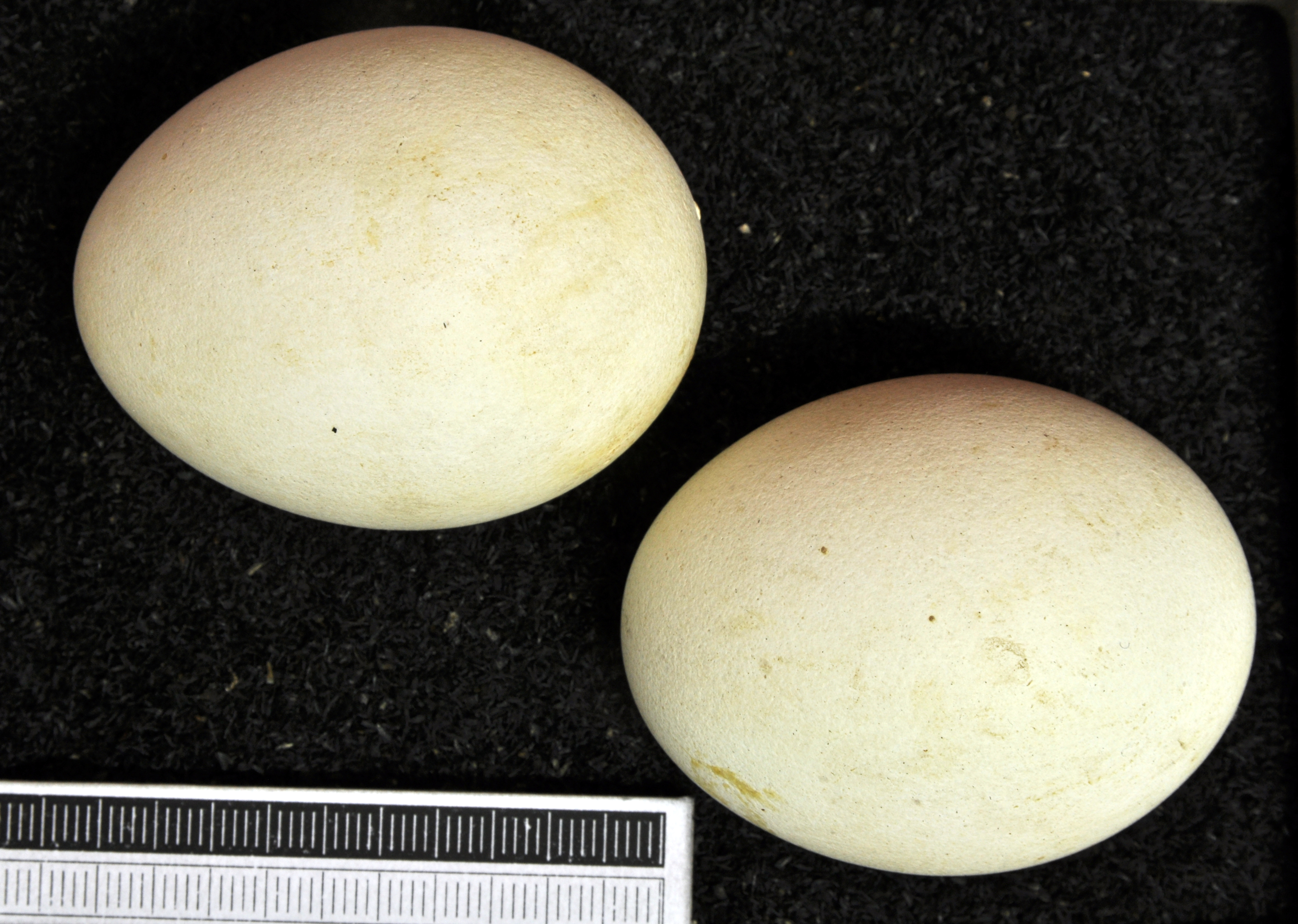 Booted eagle Hieraaetus pennatus , egg, Coll. Museum Wiesbaden